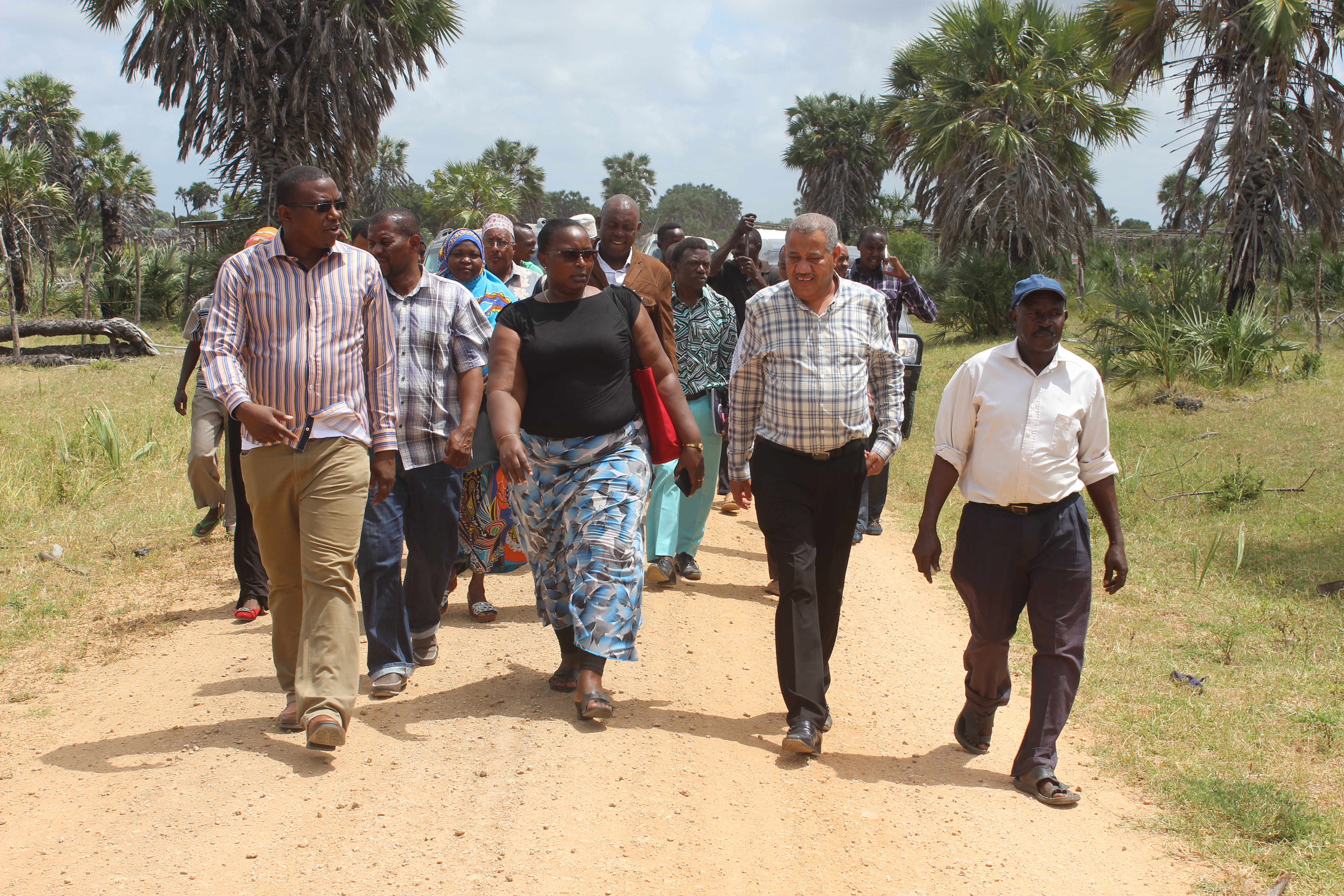 The photo displays the former leaders of Lamu county during the inspection of a murram road in Lamu county. This is an image with the theme "Africa on the Move or Transport" from: Kenya